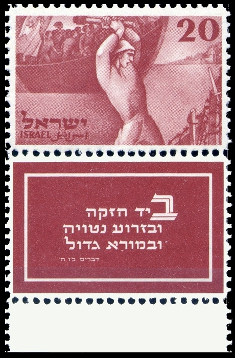 Second Independence Day stamp- 20 mil. Inscription on tab: "...with a mighty hand, and with a outsretched arm, and with great terribleness... Deuteronomy XXVI, 8".